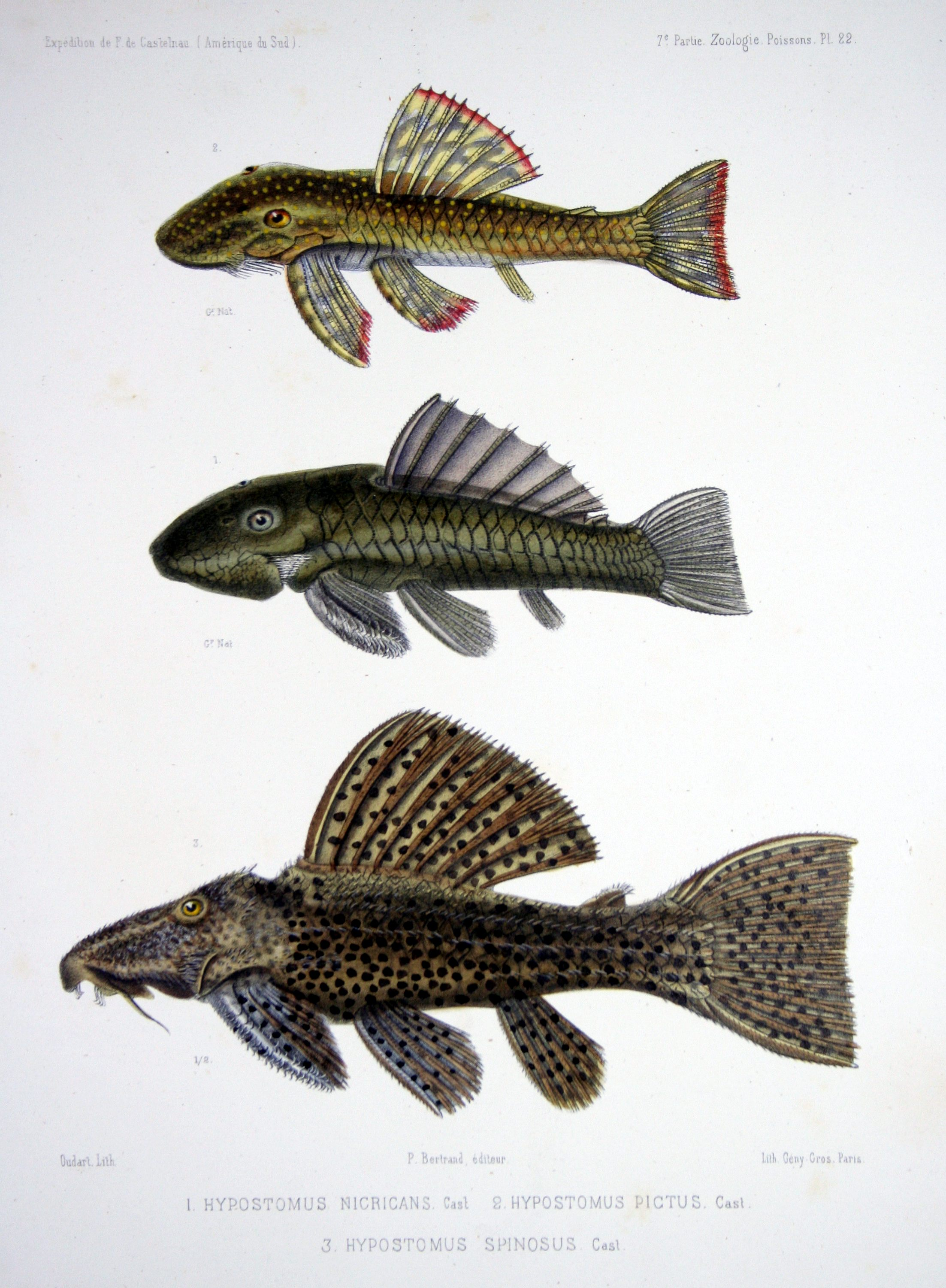 From top to bottom: Hypostomus pictus = Lasiancistrus castelnaui = Lasiancistrus schomburgkii Hypostomus nigricans = Parancistrus aurantiacus Hypostomus spinosus = Pseudacanthicus spinosus